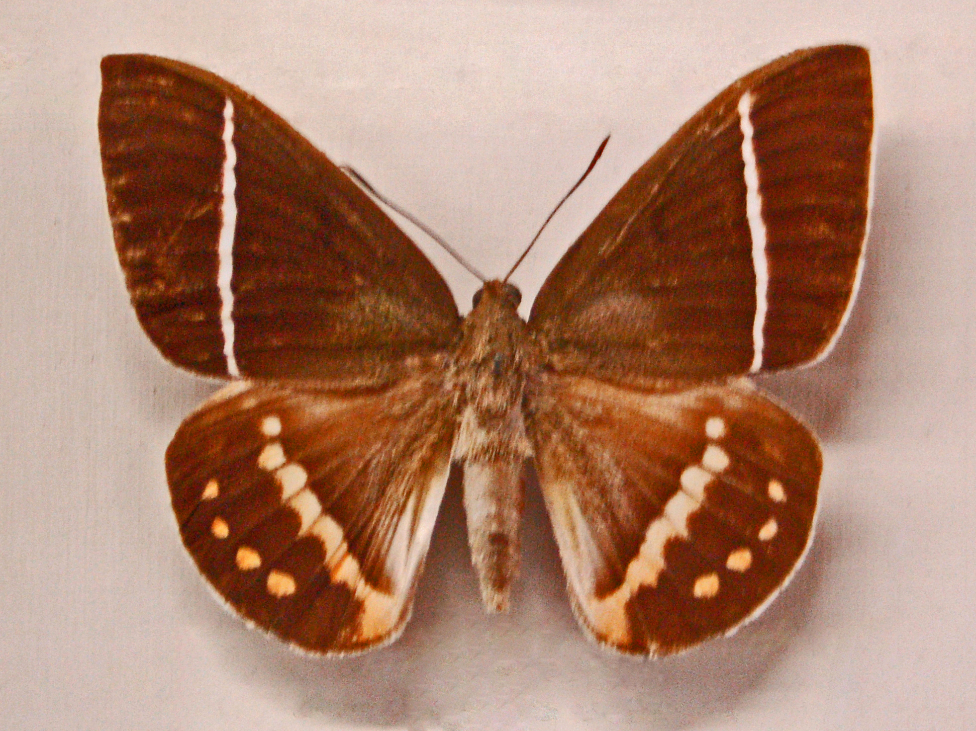 Amauta cacica - National Museum (Prague)